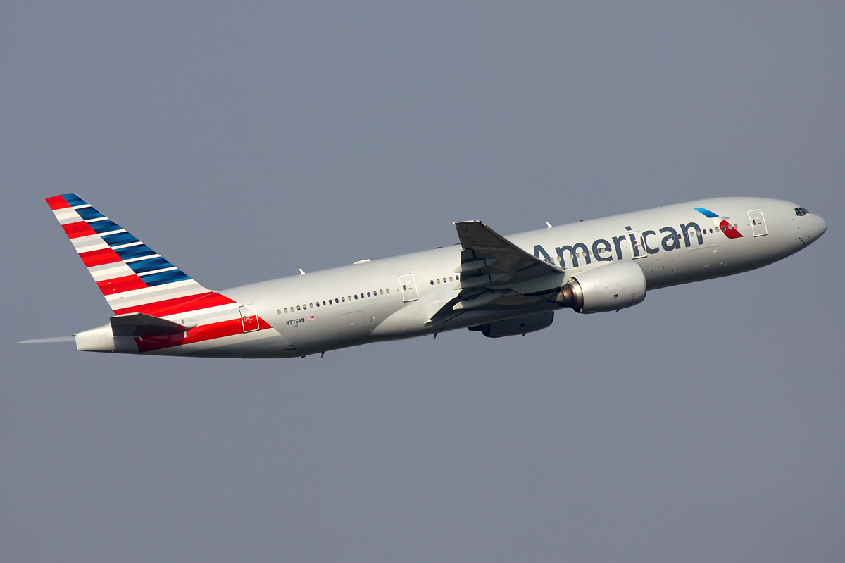 American Airlines Boeing 777-223ER taking off from Pudong Airport